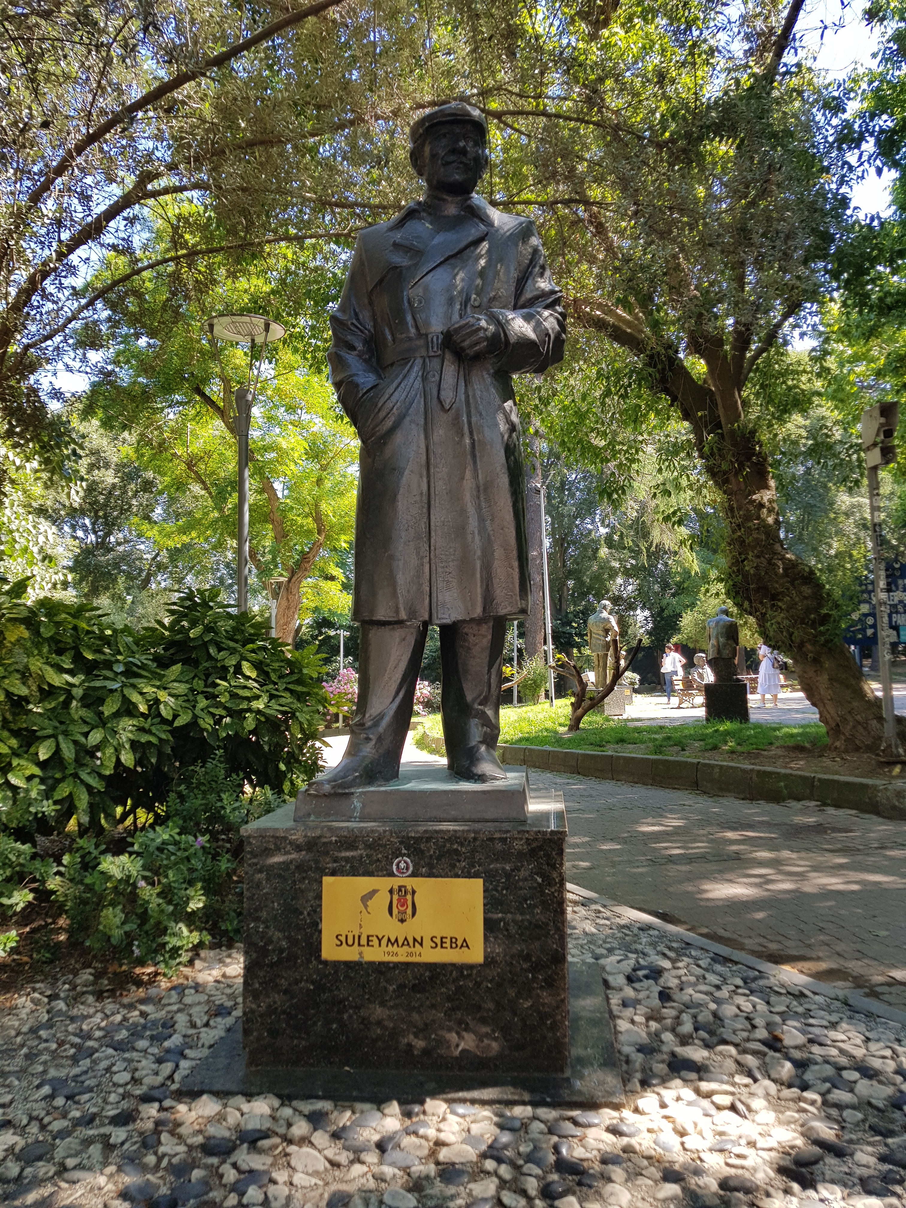 Süleyman Seba statue in Istanbul 20200629